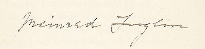 Signature of Swiss author Meinrad Inglin